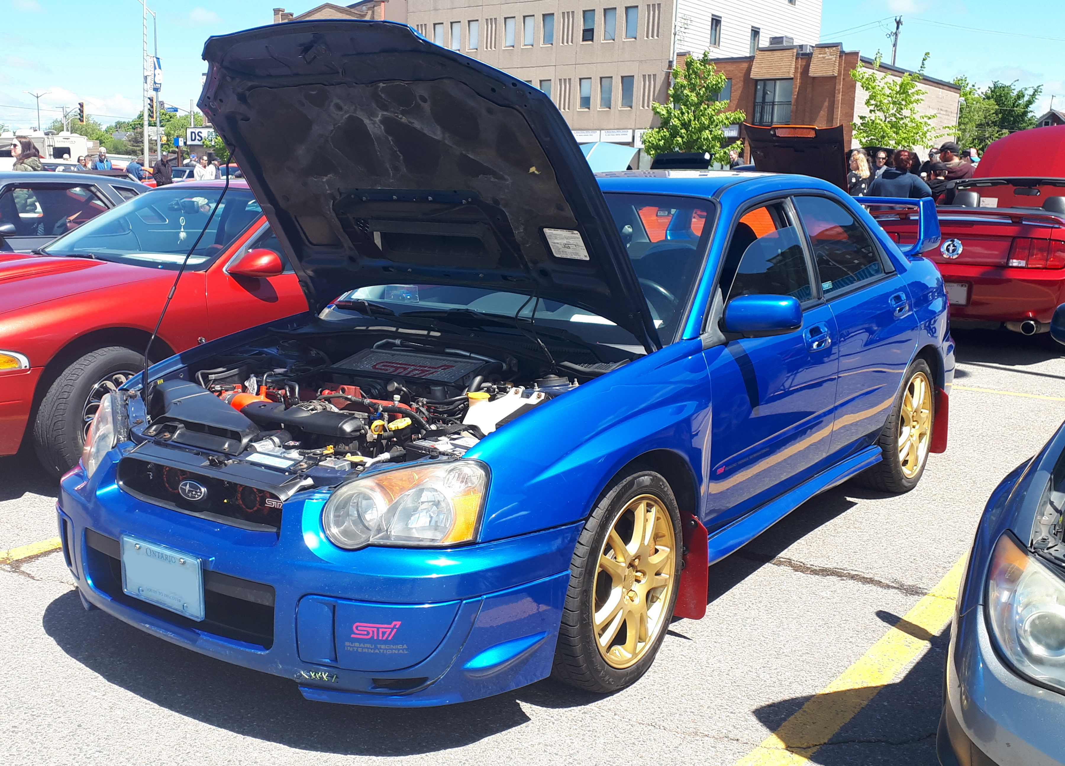 2005 Subaru Impreza WRX STI photographed in Sault Ste. Marie, Ontario, Canada at the 4th annual Queen Street Cruise.